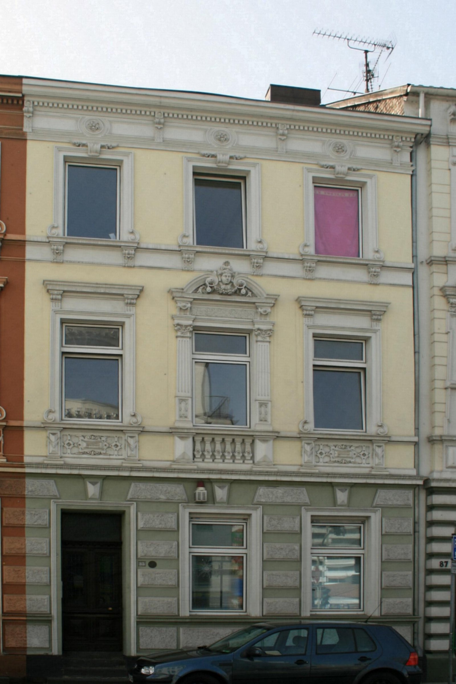 Cultural heritage monument No. 1/139 in Düren